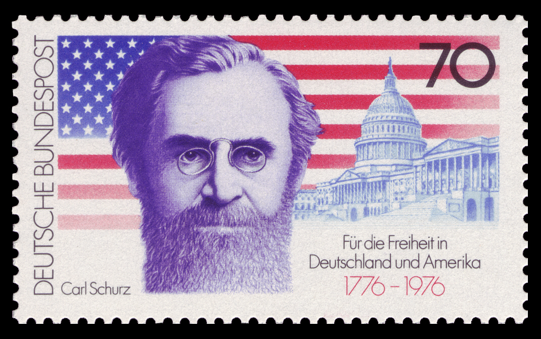 200 years of the independence of the United States of America Ausgabepreis: 70 Pfennig First Day of Issue / Erstausgabetag: 13. Mai 1976 Michel-Katalog-Nr: 895 Graphic-Designer:Knoblauch